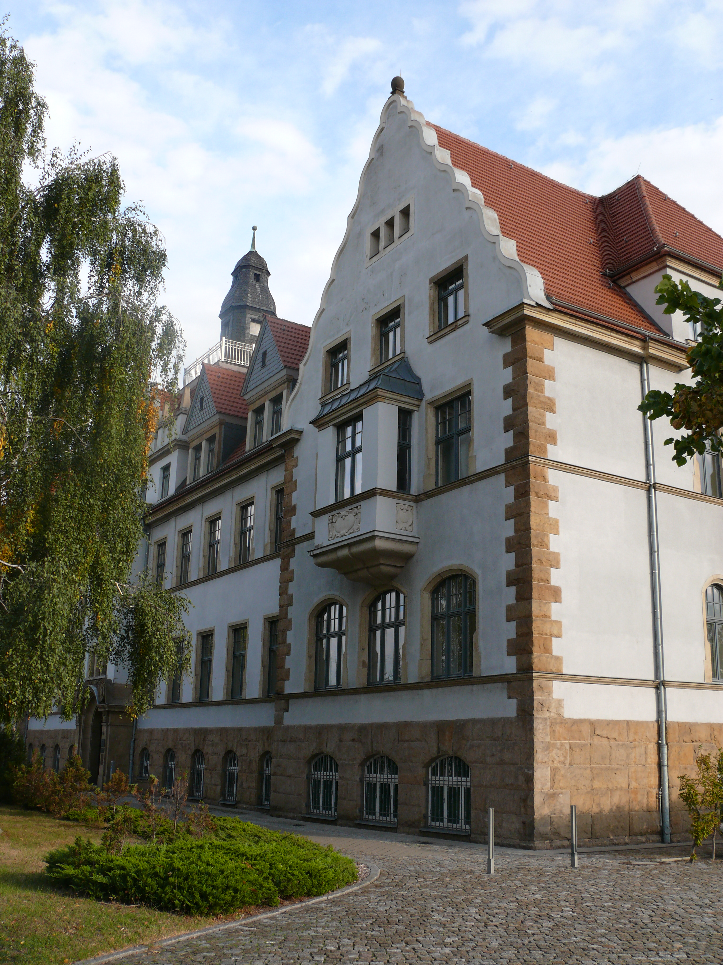 Amtsgericht Riesa front